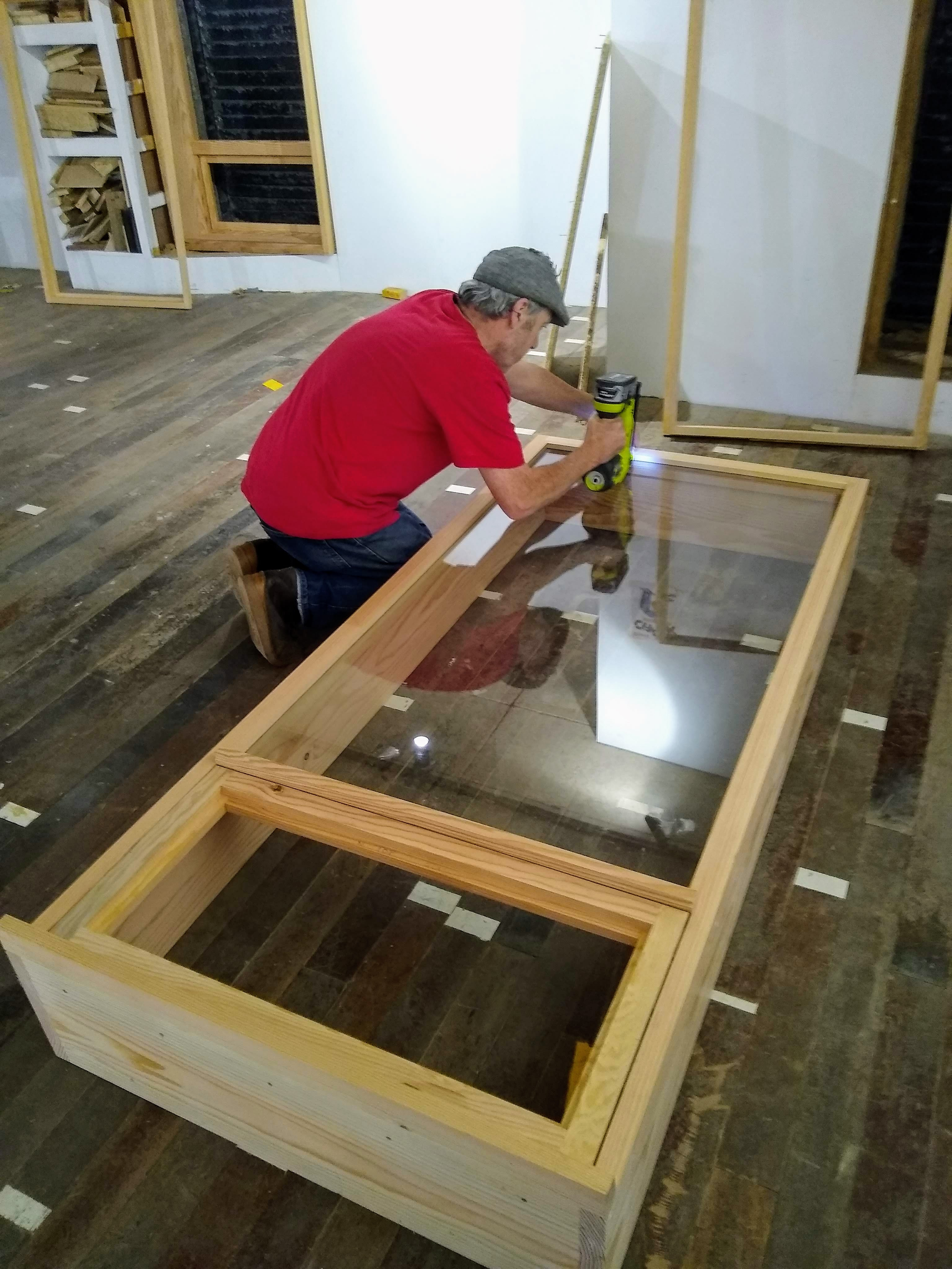 A joiner prepares a window for installation